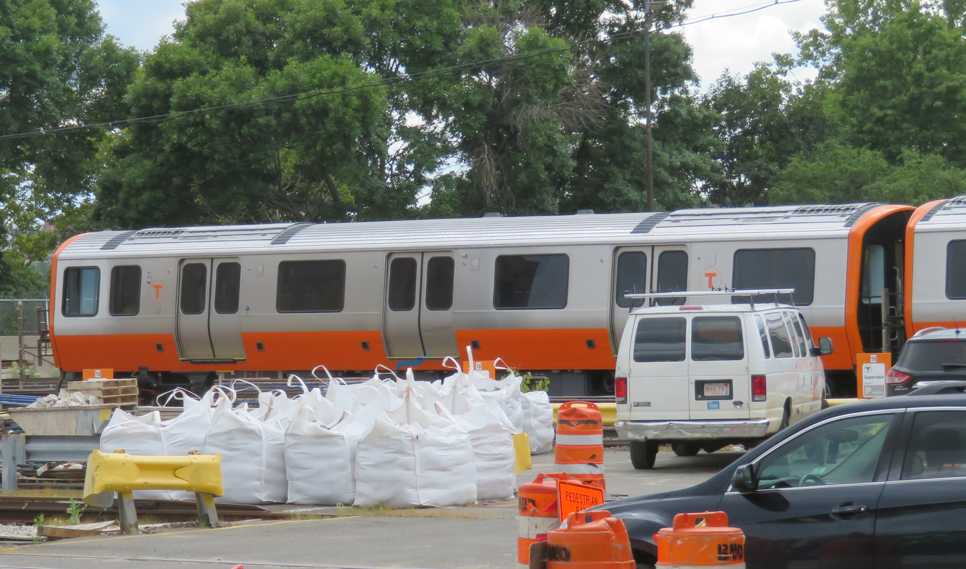 The first test set of new Orange Line cars in Wellington Yard in August 2018